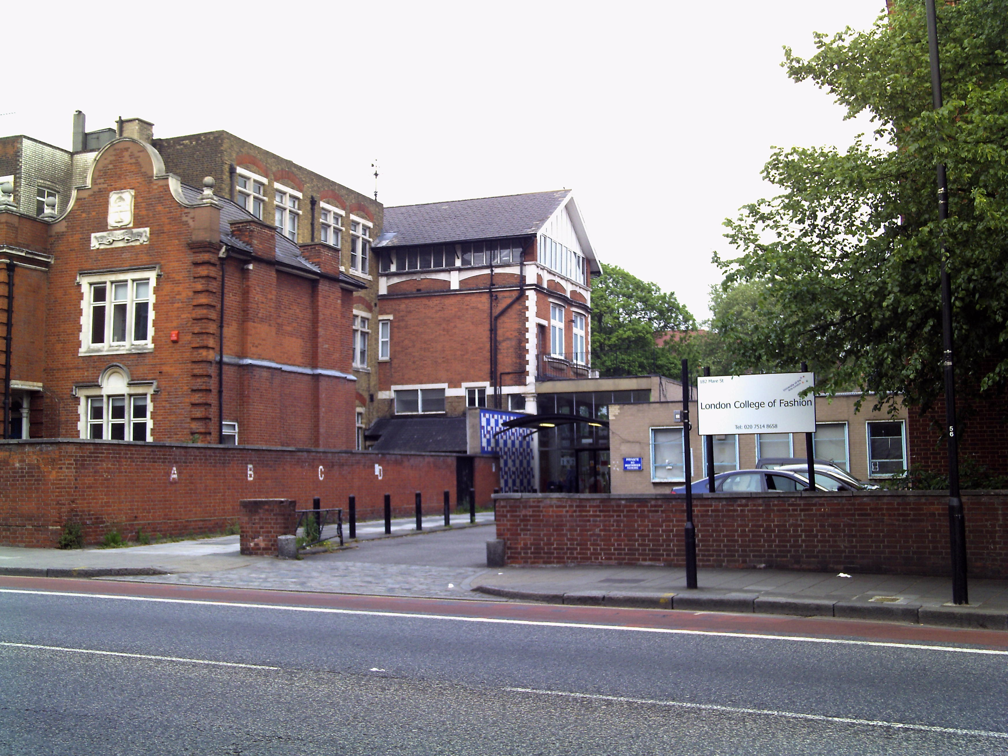 Mare Street site, London College of Fashion, formerly Cordwainers College.